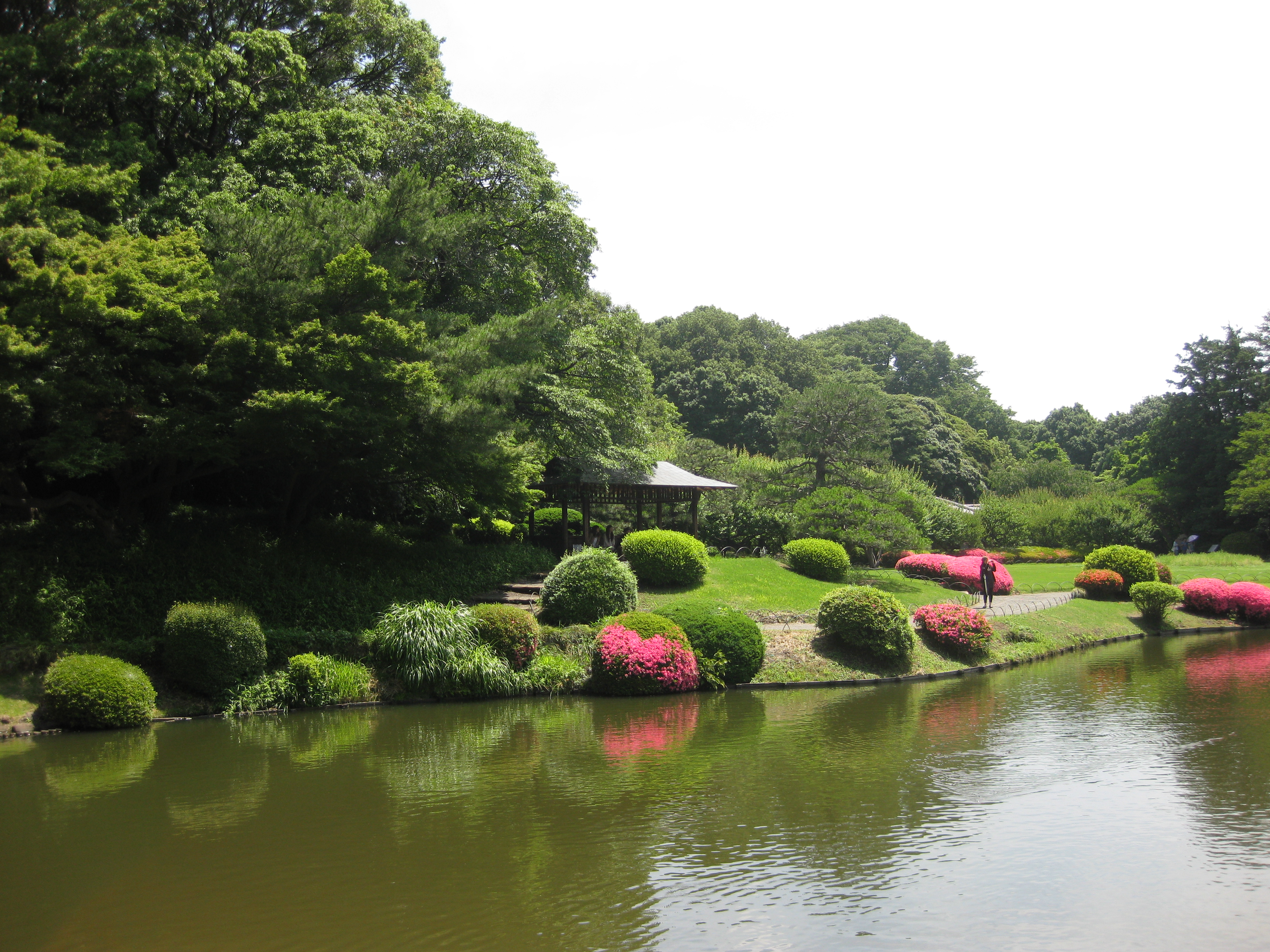 Impression of Shinjuku Gyoen, Tokyo